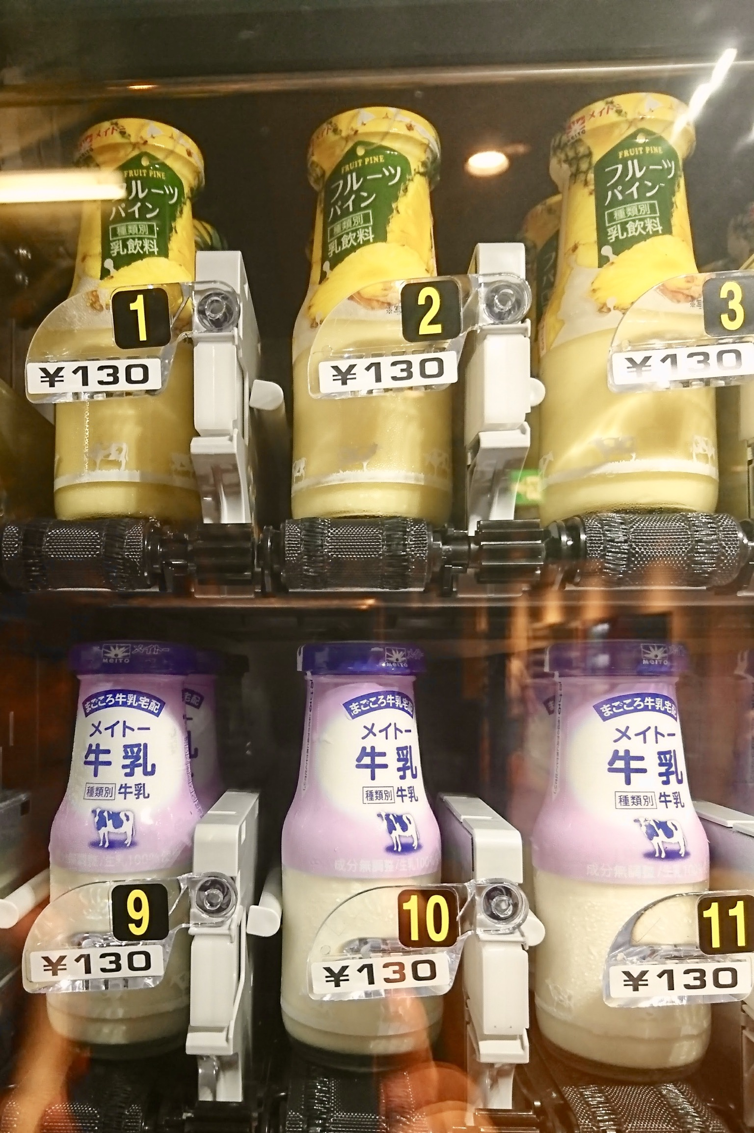 Meito's milk